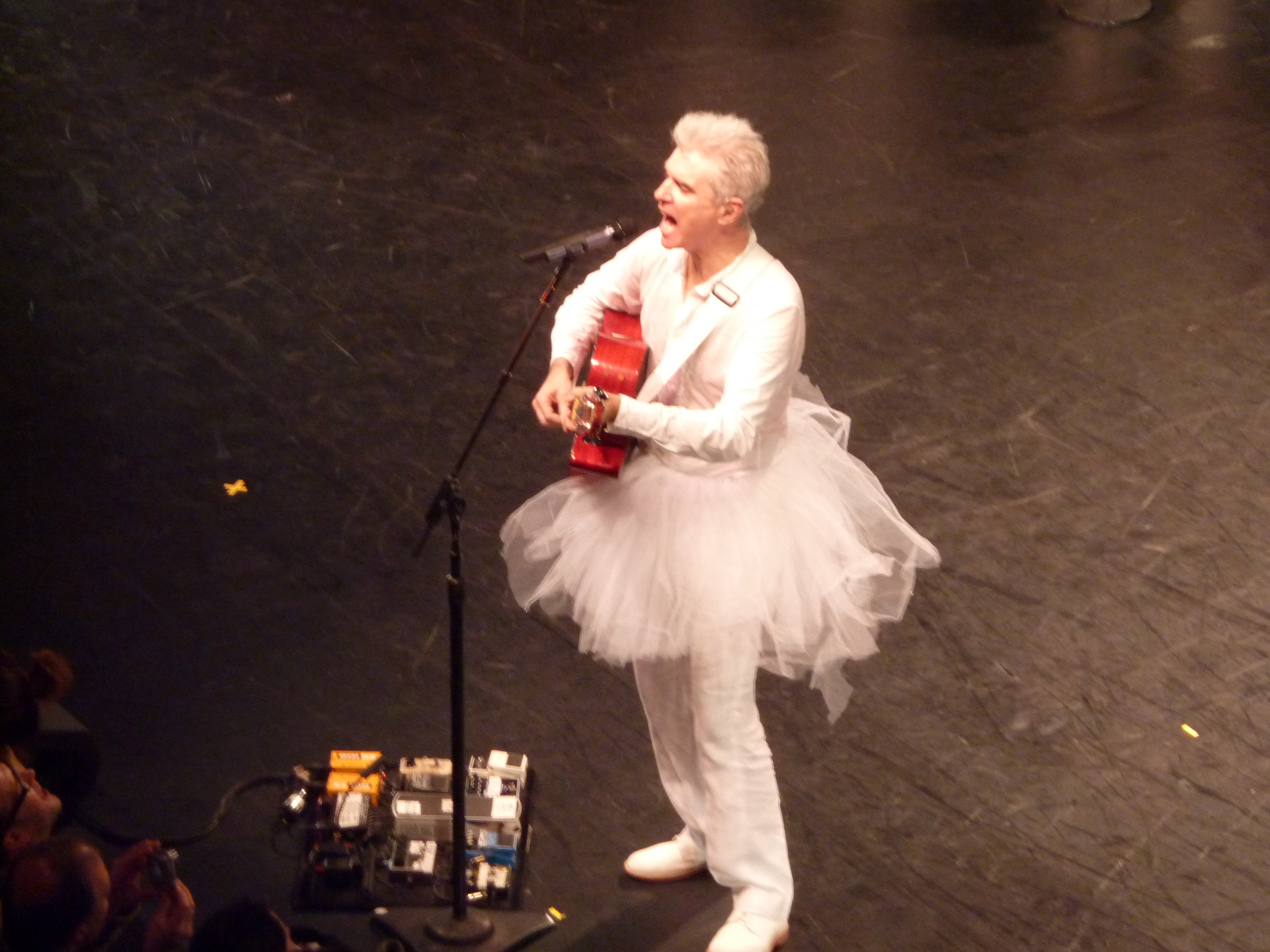 David Byrne appearing at London's Festival Hall, April 2009